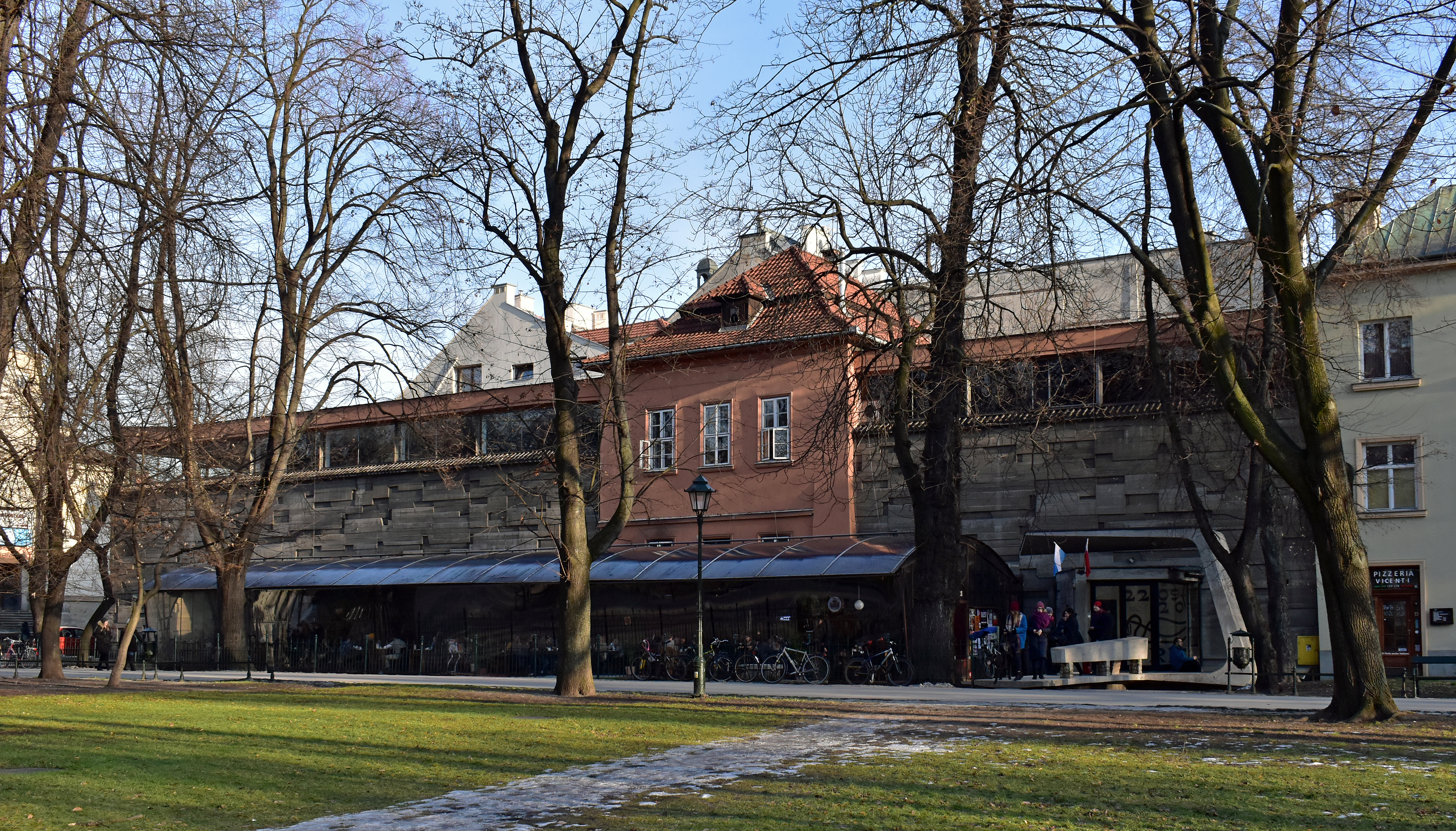 Gallery of Contemporary Art "Bunkier Sztuki", 1965 design. Krystyna Tolloczko-Rozyska, 3a Szczepański square, Old Town, Krakow, Poland